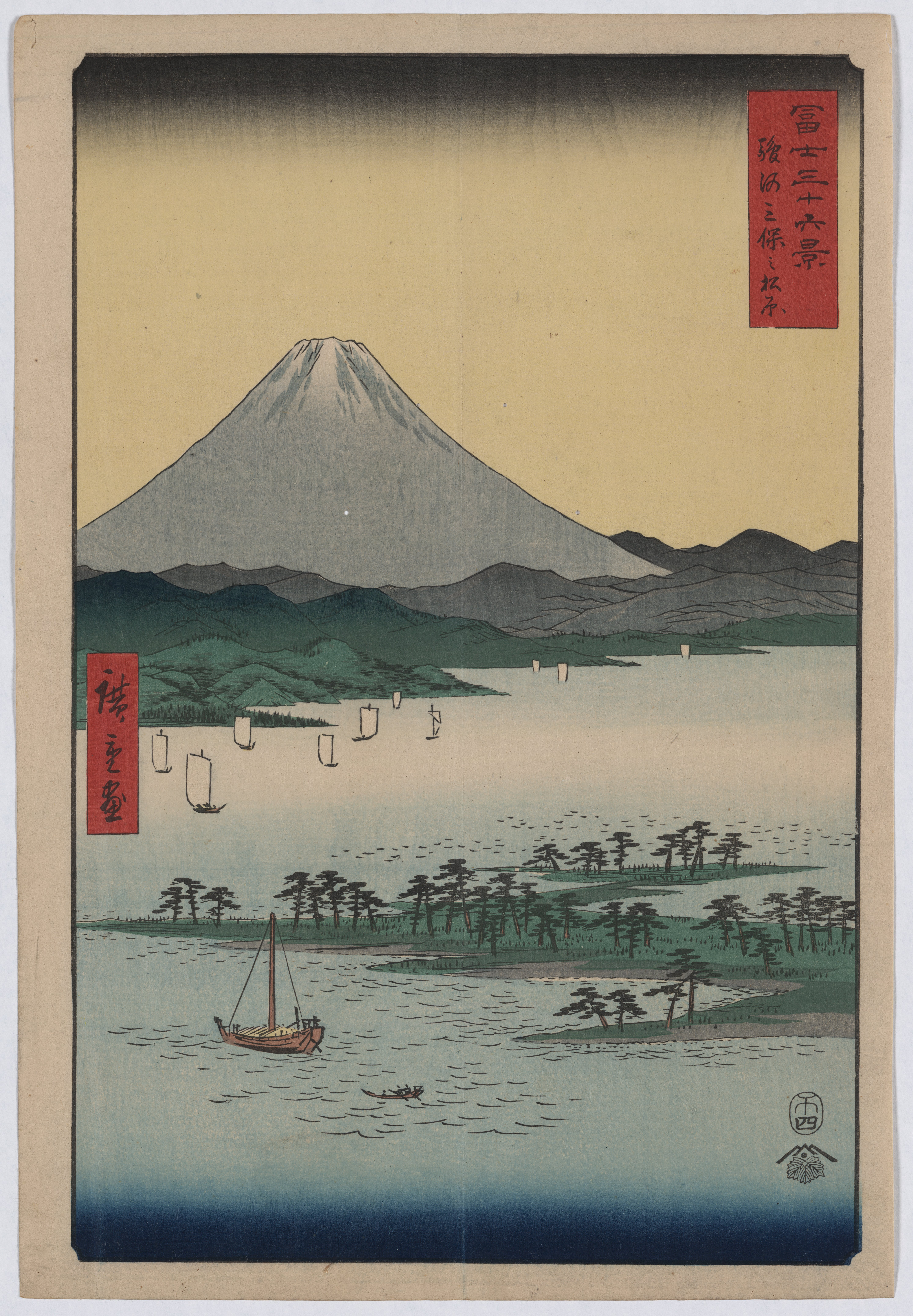 Pine beach at Miho in Suruga. Japanese print shows a view of Mount Fuji with a pine grove on a promontory in the Suruga Bay surrounded by sailboats.